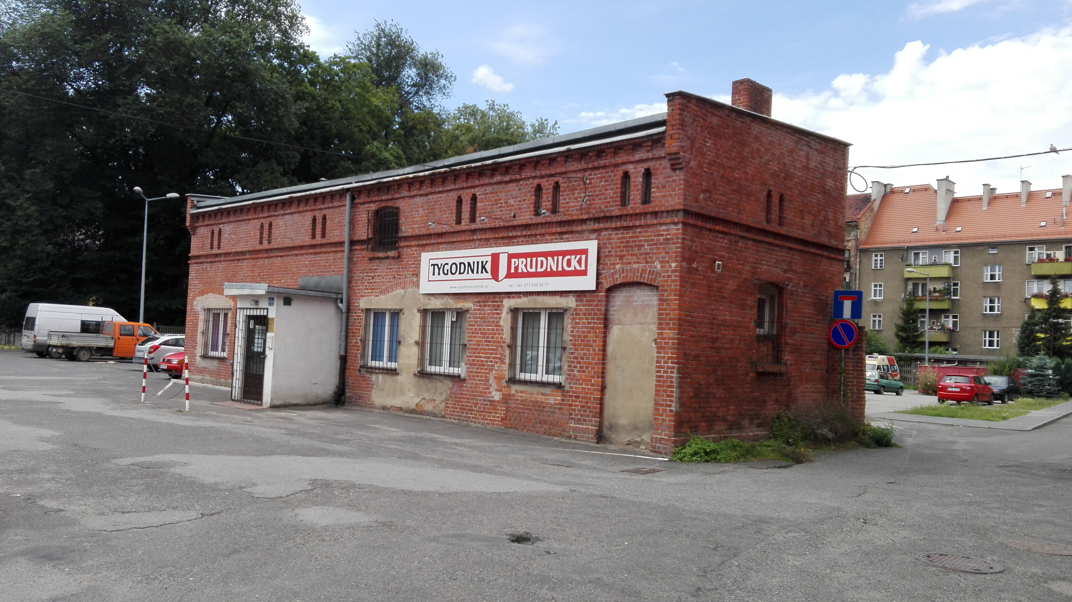 13A Tadeusza Kościuszki Street in Prudnik.